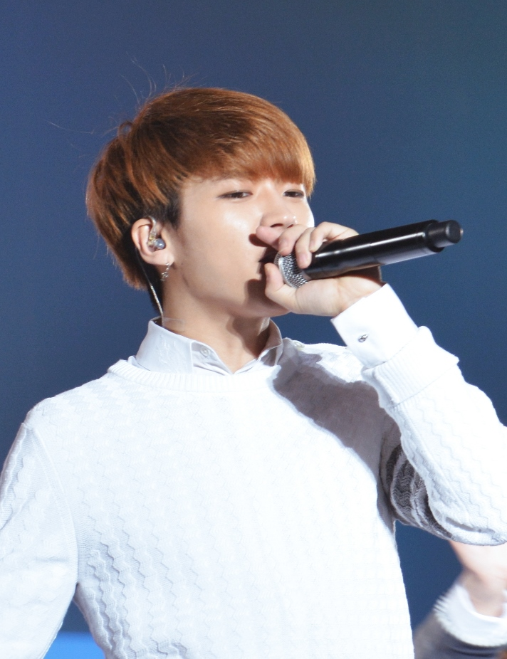 Woohyun at Dilemma Tour in Tokyo on May 5, 2015.